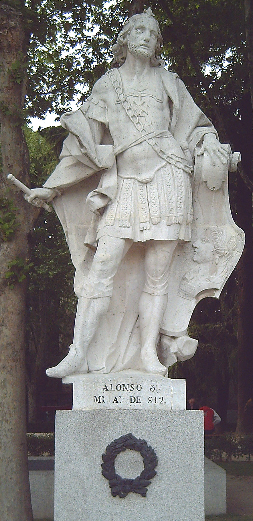 Statue of Alfonso III of Asturias, the Great (c.848–910), at the Plaza de Oriente (square) in Madrid (Spain). Sculpted in white stone by Luis Salvador Carmona (1709–1767) between 1750 and 1753.